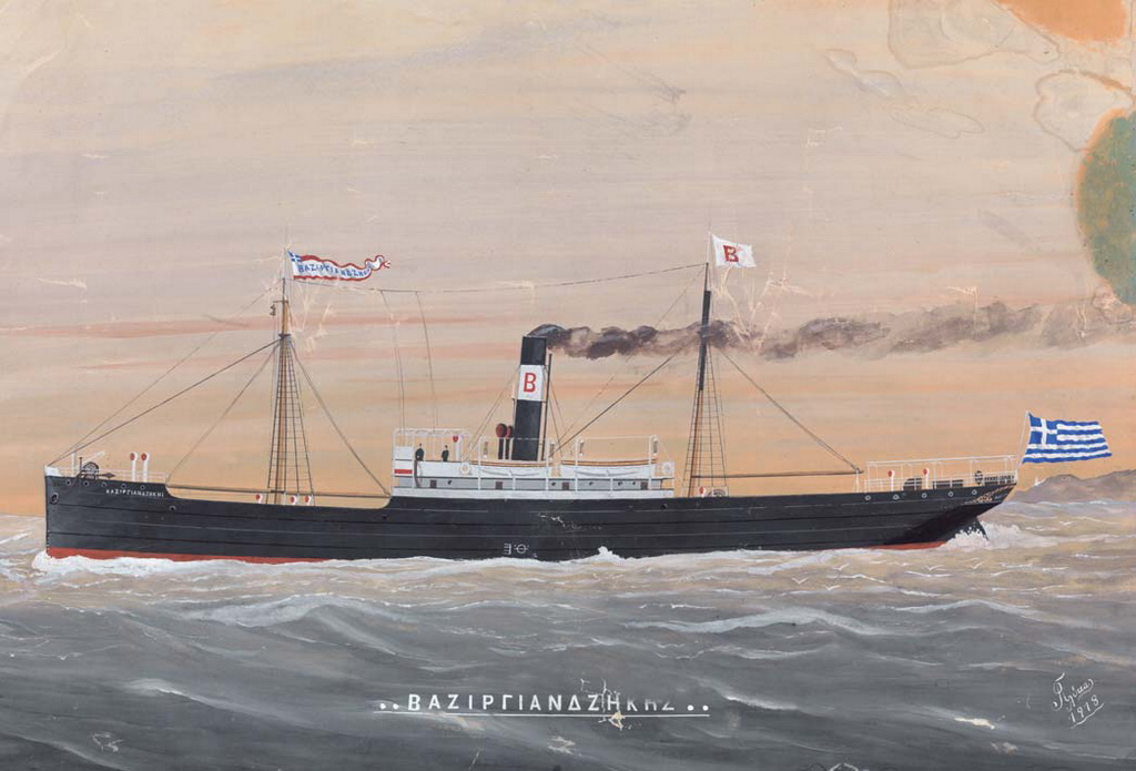 Steamship Vaziryandzikis, 1918